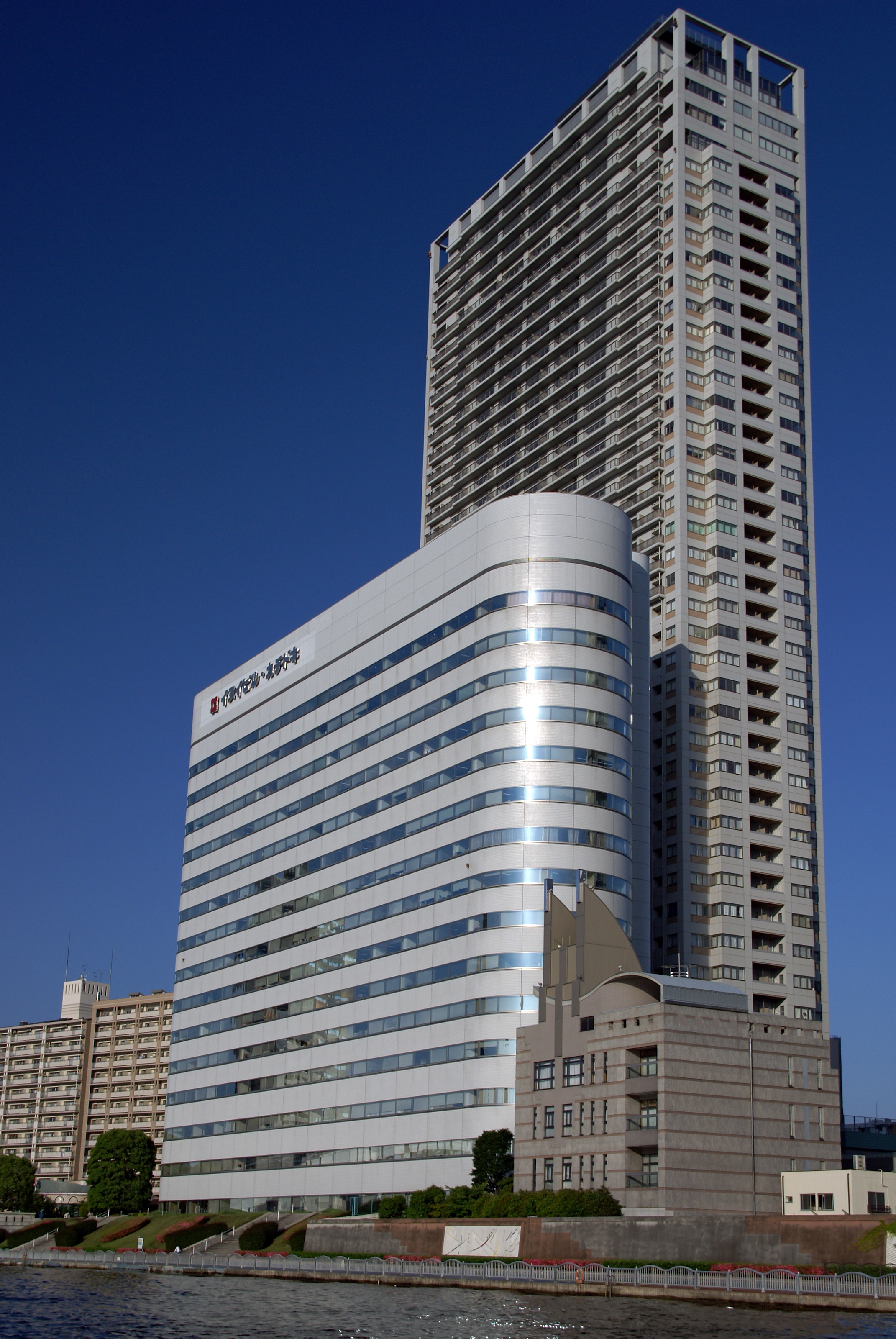 Inui Tower Kachidoki and Plaza Tower Kachidoki, Chūō, Tokyo, Japan